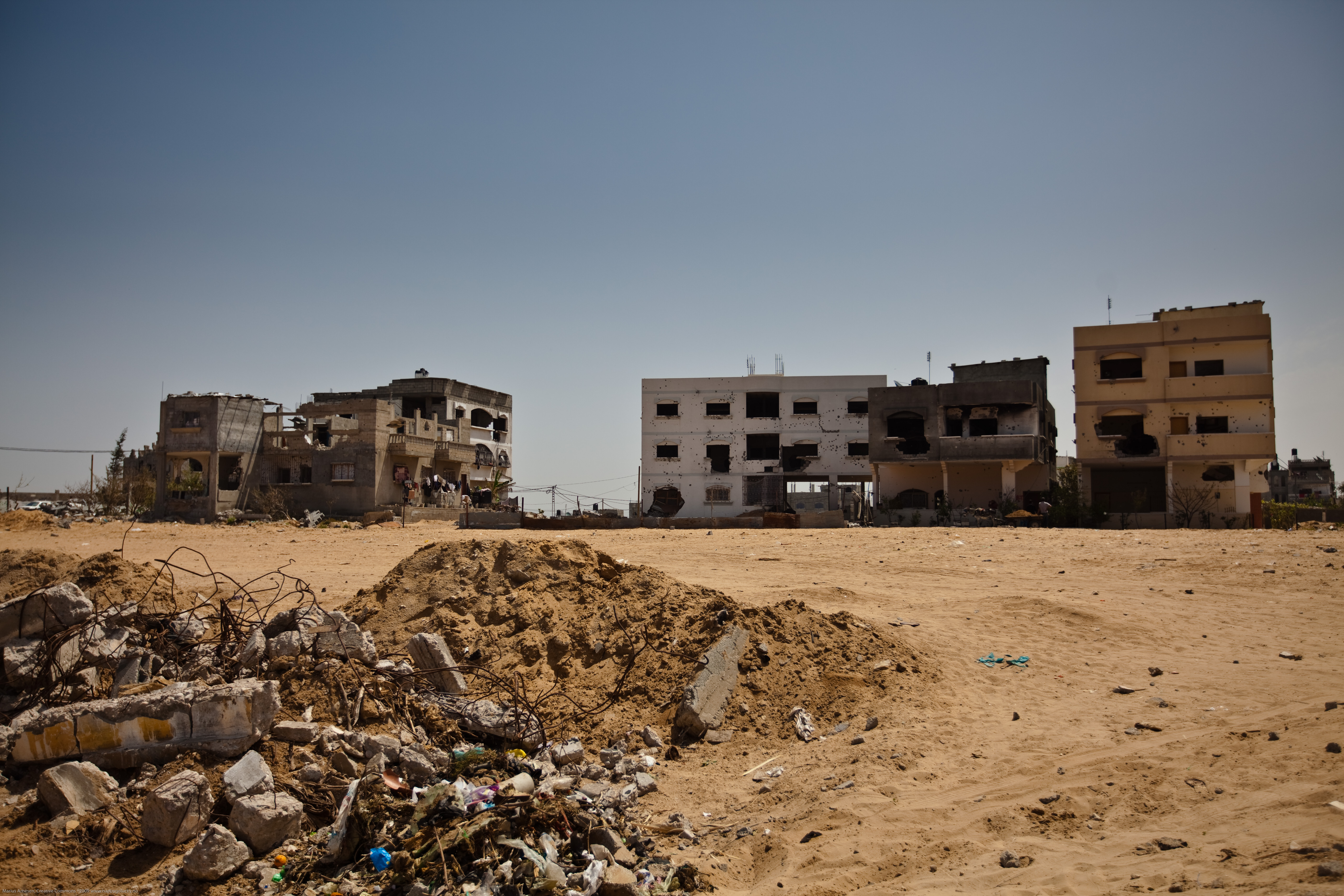 Damaged housing, Gaza Strip, April 2009